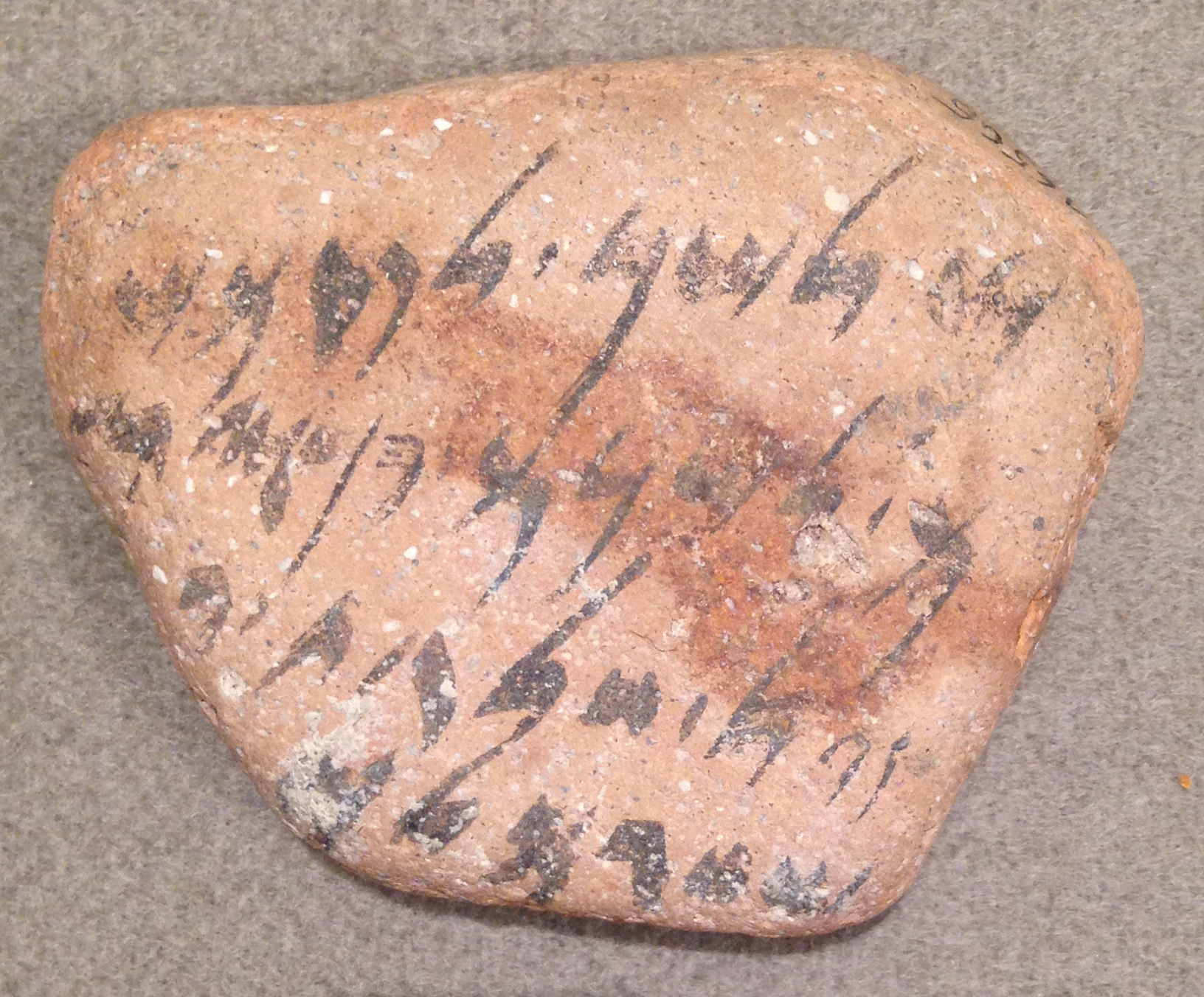 Terracotta ostracon with Phoenician inscriptions from Tyre/Sour, Southern Lebanon, 3rd century BCE, at the National Museum of Beirut